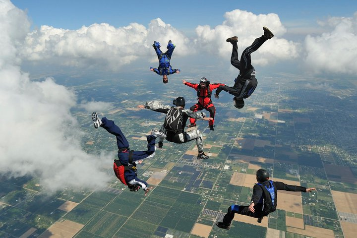 Freeflying at Skydive Miami